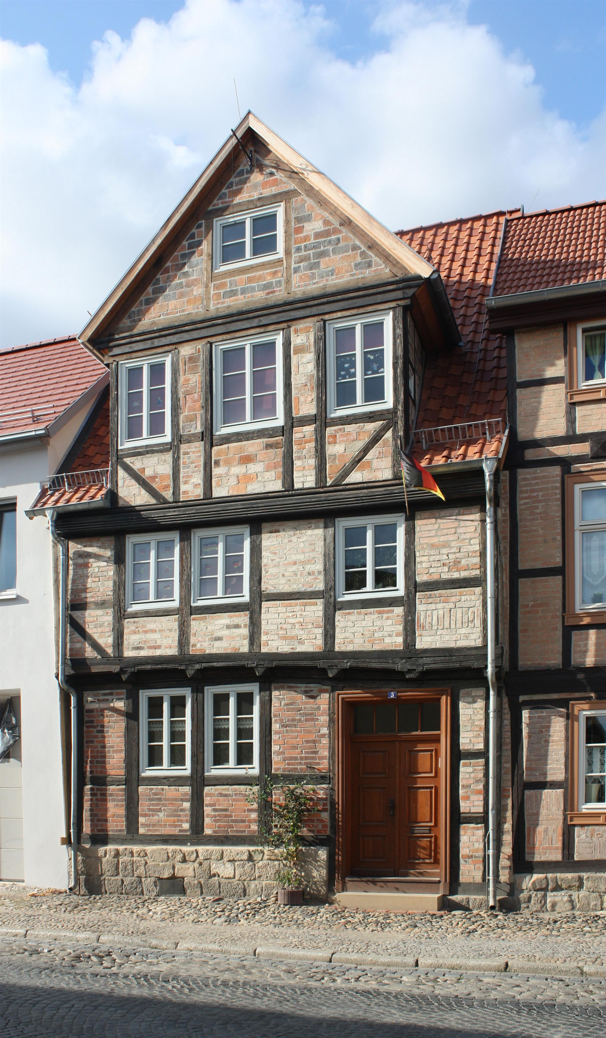 This is a photograph of an architectural monument.It is on the list of cultural monuments of Quedlinburg Augustinern 5 in Quedlinburg